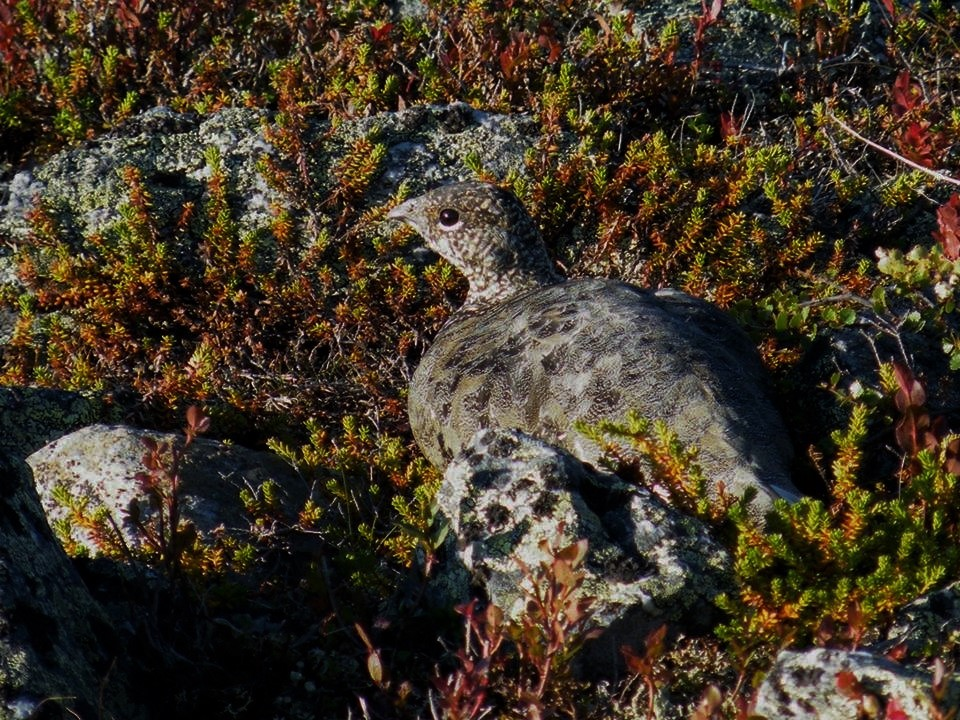 Female rock ptarmigan, Lapland